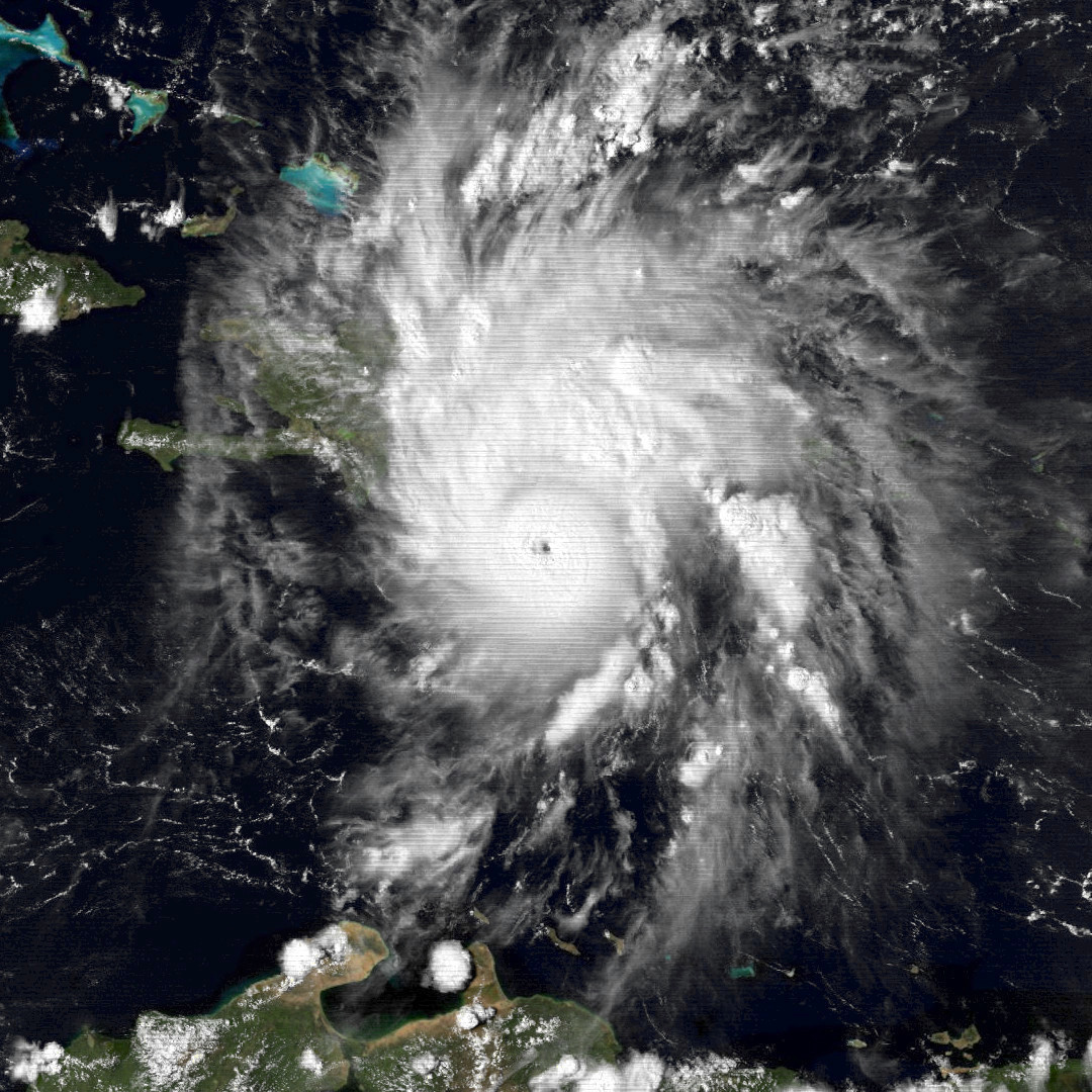 Hurricane Emily at peak intensity in the eastern Caribbean Sea on September 22, 1987